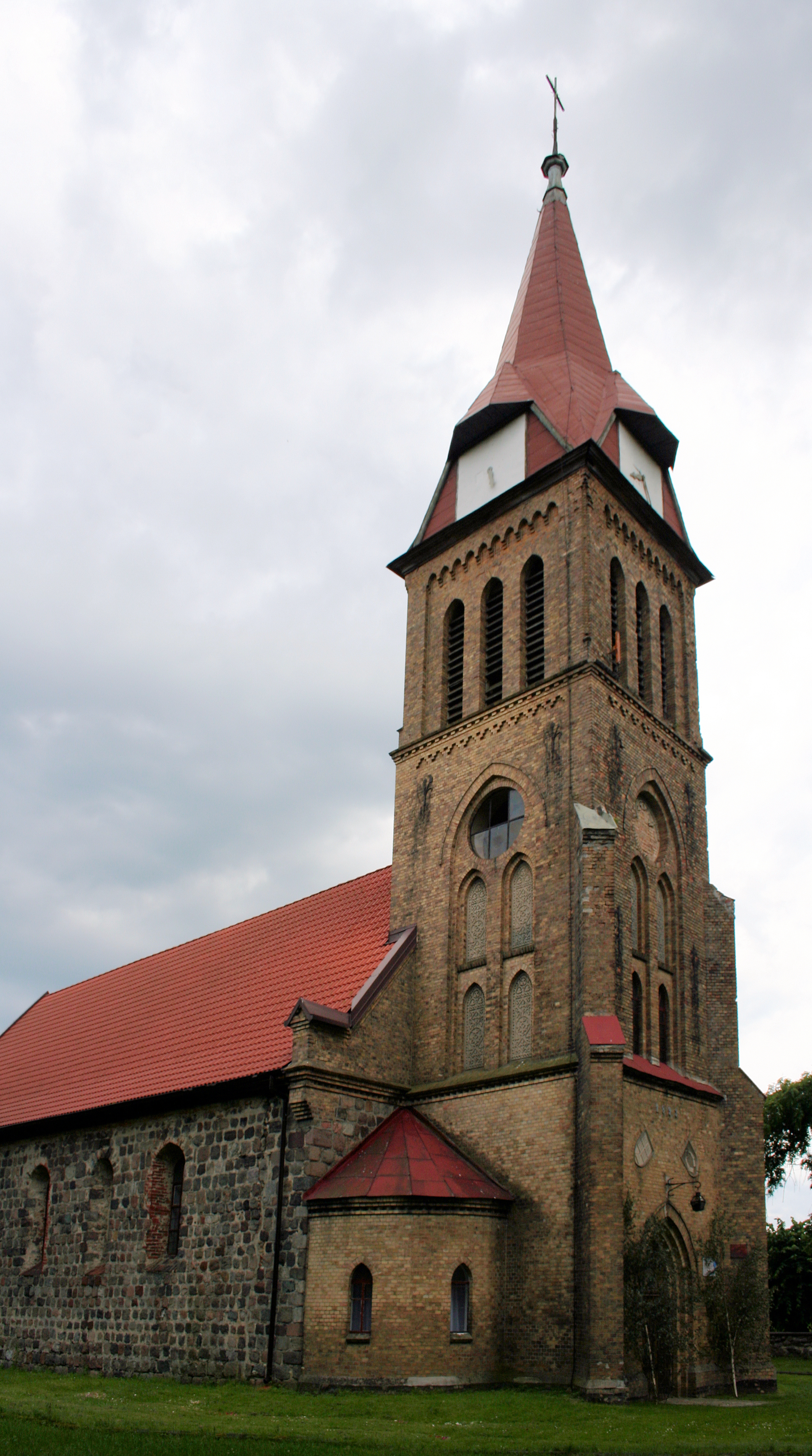 Church in Goszkow, West Pomeranian Voivodeship